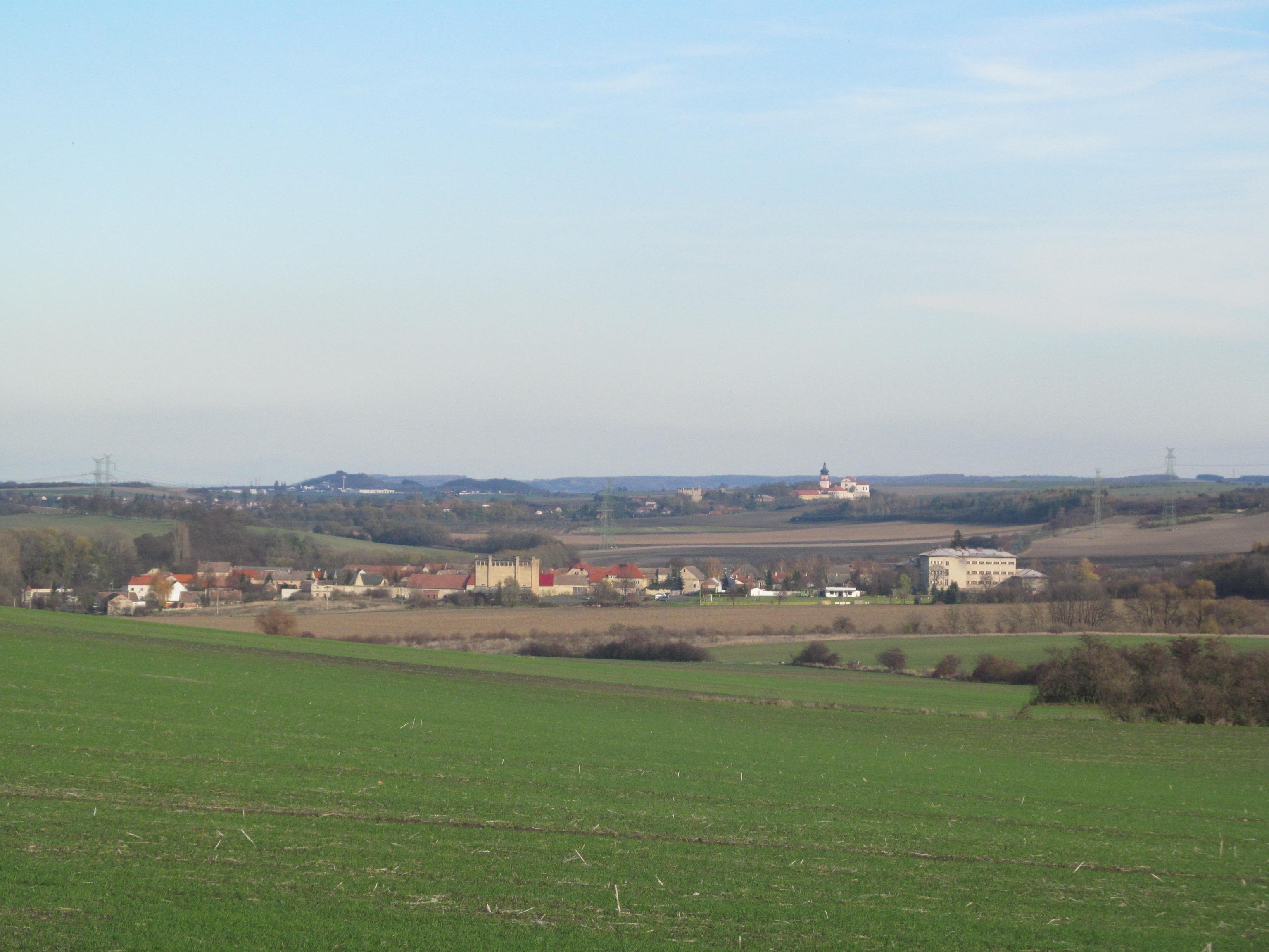 Lipenec from west, in the backround Nový Hrad castle